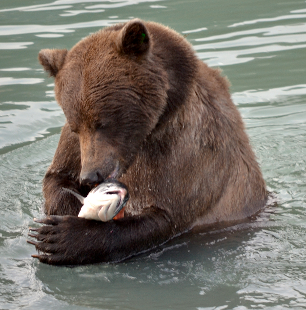 Wild salmon are valued as a sustainable seafood option for humans, but can we consider how much salmon bears and ecosystems need when setting management goals? Image credit: Jennifer Allen.